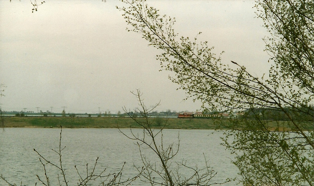 Kulkwitz Lake near Göhrenz (Leipzig district) with a train from Pörsten to Leipzig in April 1998. This railway line has been closed in 1998 and dismantled in 2005.